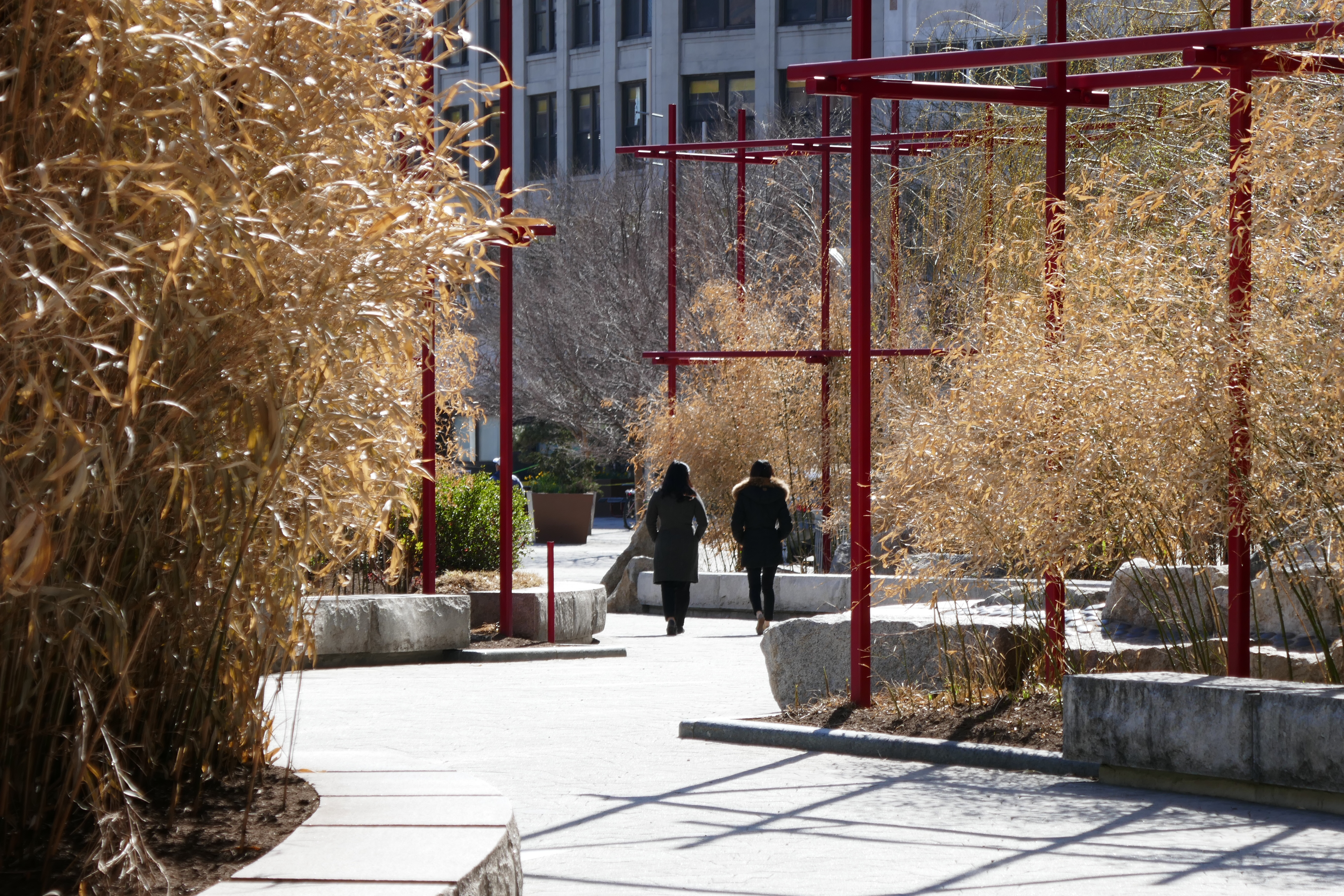 Chinatown Park on the Rose Kennedy Greenway in Boston, 2016. The park was created as part of the Big Dig highway project.